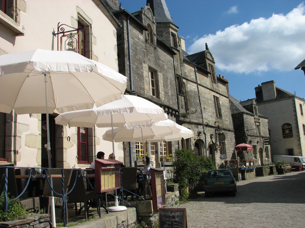 Central square of Rochefort-en-Terre